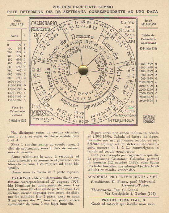 Perpetual calendar in latino sine flexione created after plans by Giuseppe Peano to be used up to 2599.